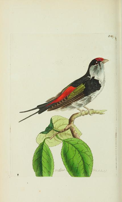 Pin-tailed Manakin, Ilicura militaris, colour plate attached to the first description